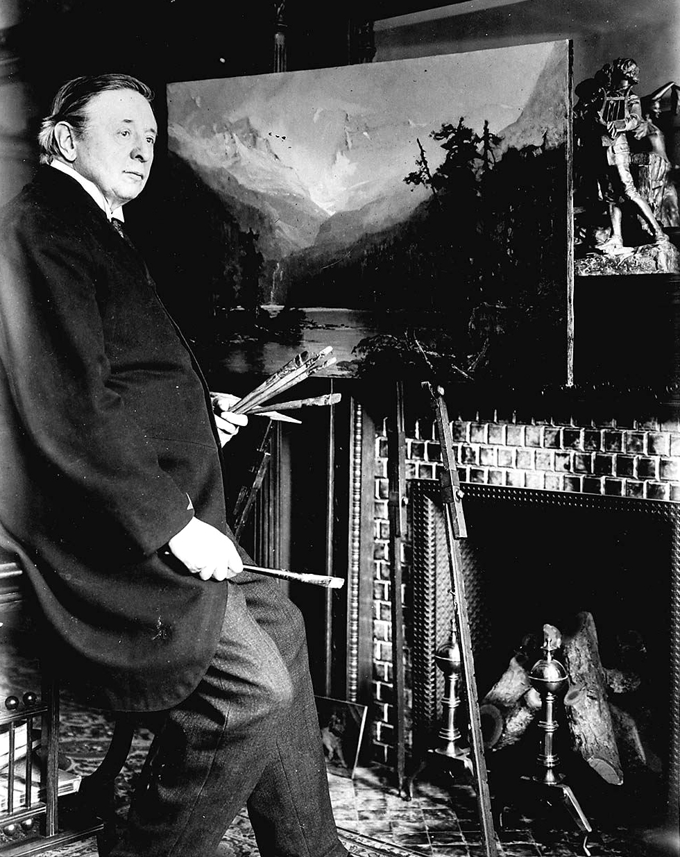 Frederic Marlett Bell-Smith, painting Lake Louise (actually Lake o'Hara, caption on photo was mistaken)